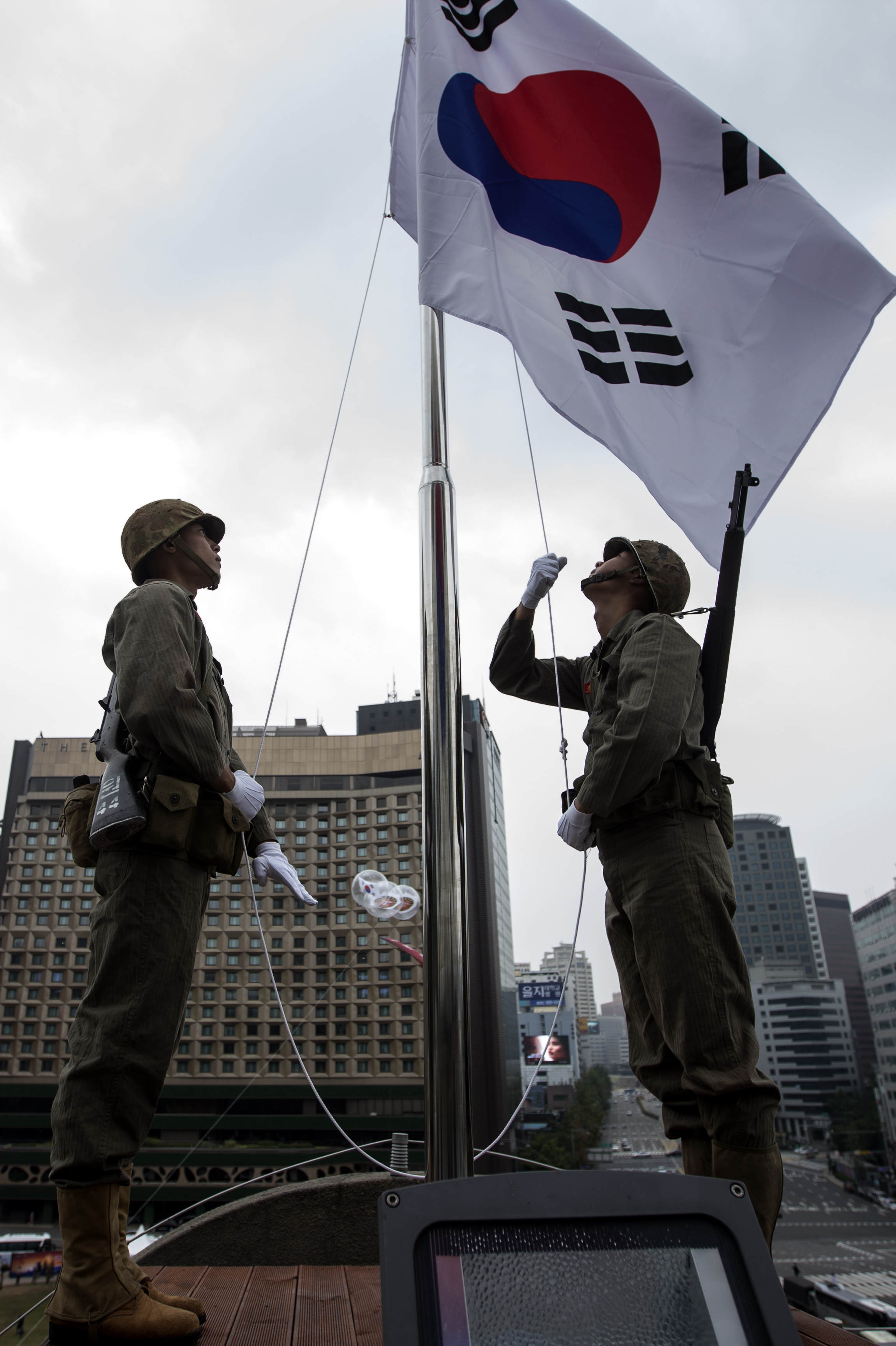 28th, September, 2014, the 64th Seoul Recovery Festival of ROKMC